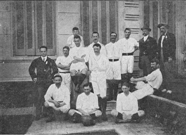 Argentine football team Alumni A.C. (in white jersey) before the match played vs. Southampton F.C. in Sociedad Hipica Argentina.